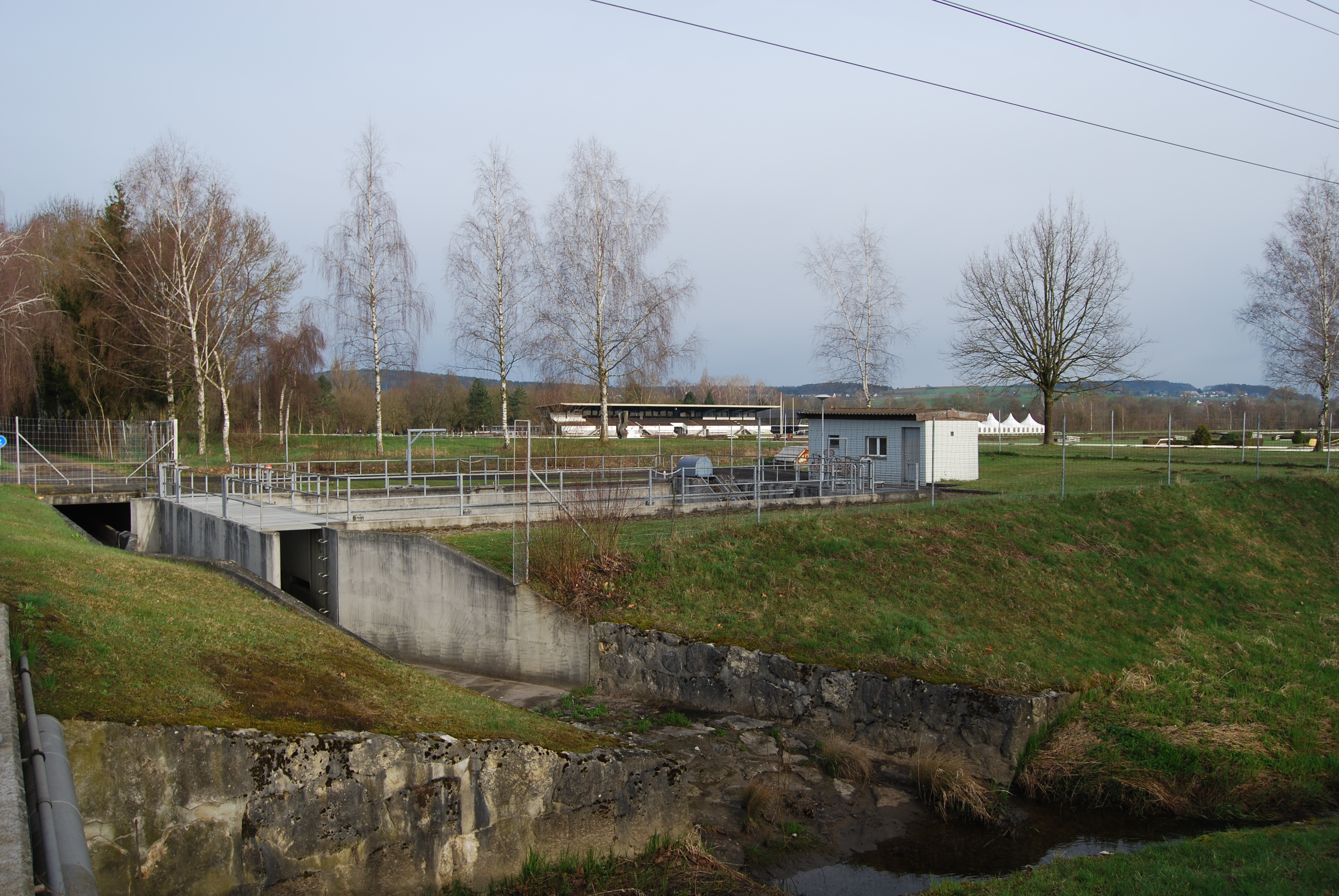 Horse racing stade Grossriet and Furtbach at Dielsdorf, canton of Zürich, SwitzerlandEsperanto: Ĉevalkonkursejo Grossriet kaj rivereto Furtbach en Dielsdorf, Kantono Zuriko, Svislando